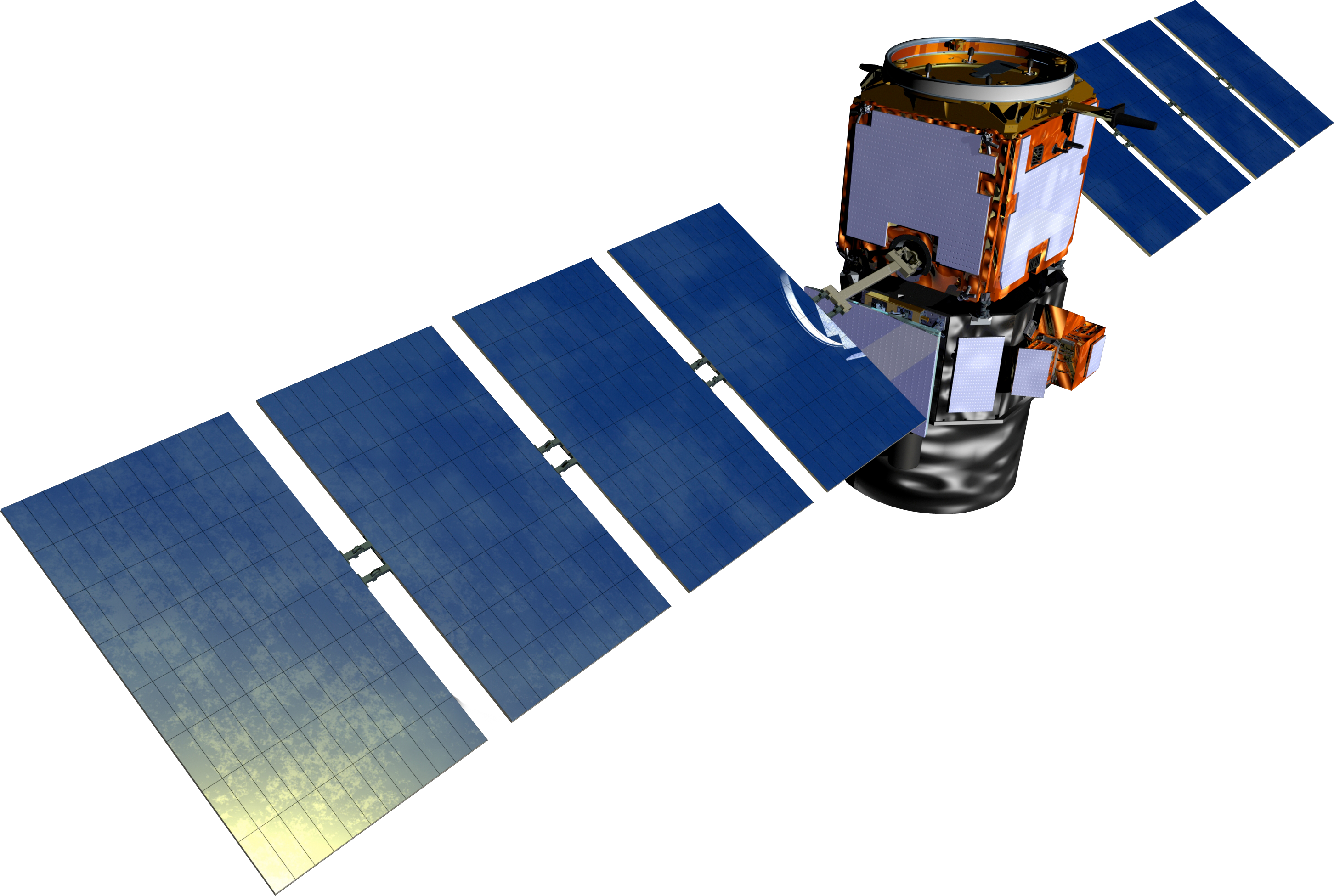 Artist's concept of the CALIPSO spacecraft.